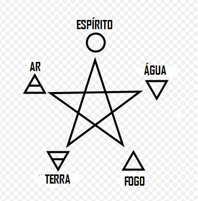 Pentagram with Five Elements "Spirit, Water, Fire, Earth, Air"